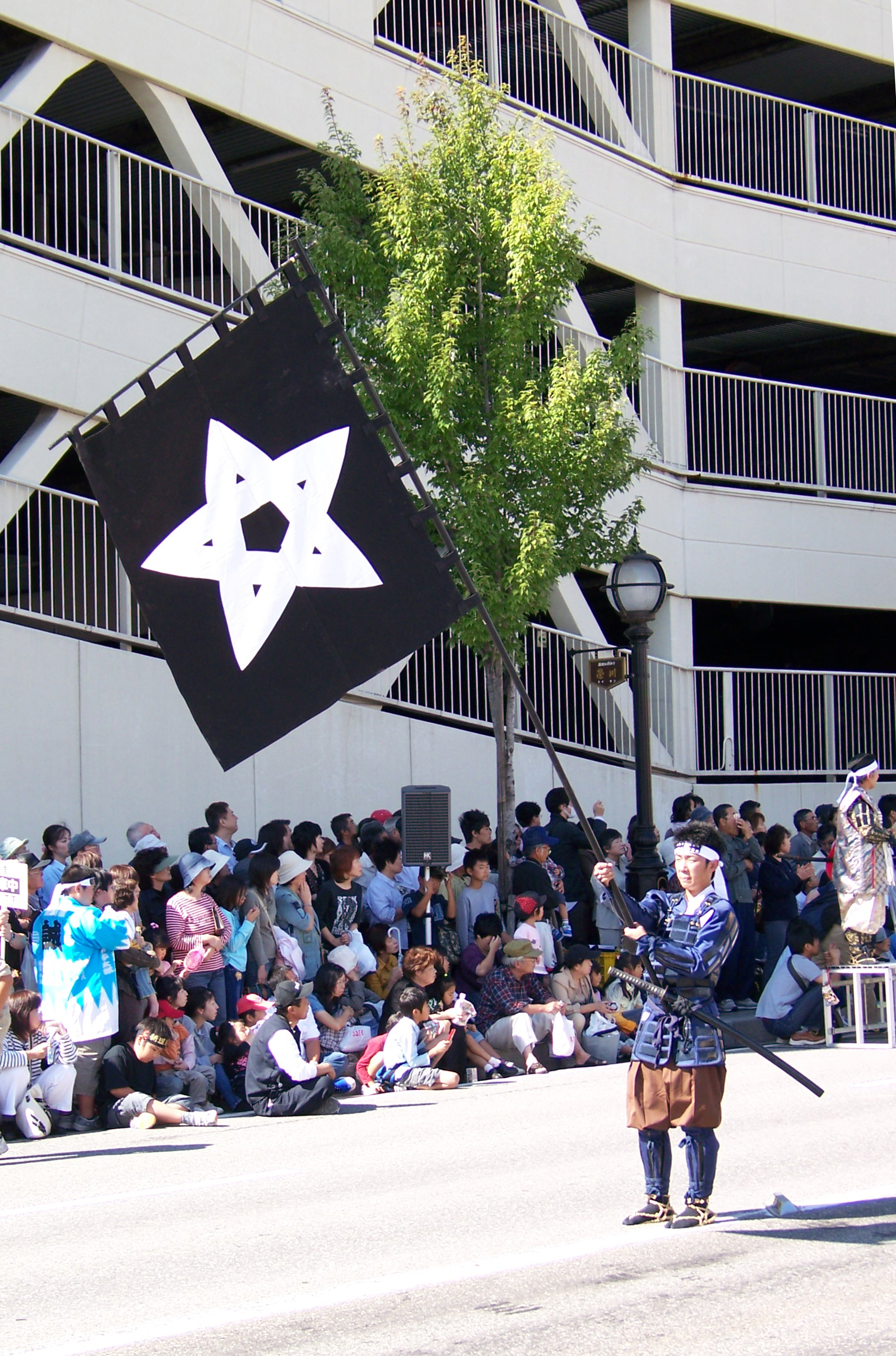 Standard-bearer in the 2006 Aizu Clan Parade in Aizu-Wakamatsu, Fukushima Prefecture, Japan. Taken 23 September 2006.